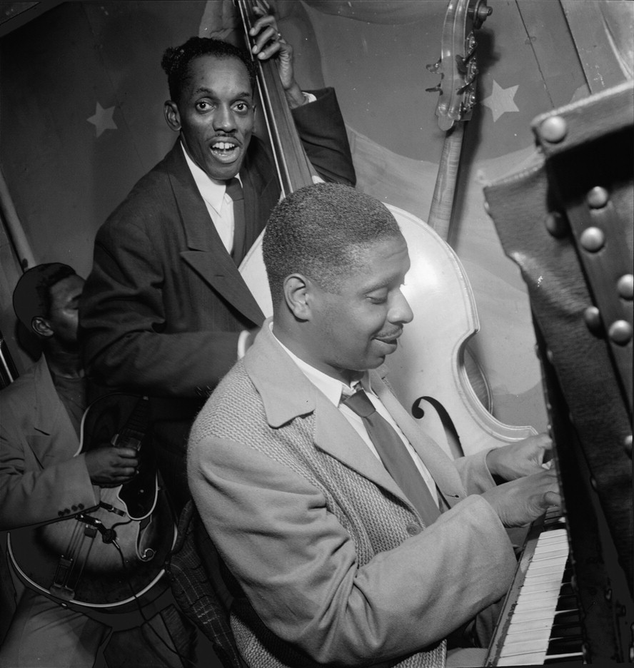 Jimmy Jones, John Levy and Al Casey (?), Pied Pipers, NYC, September 1947. Photography by William P. Gottlieb